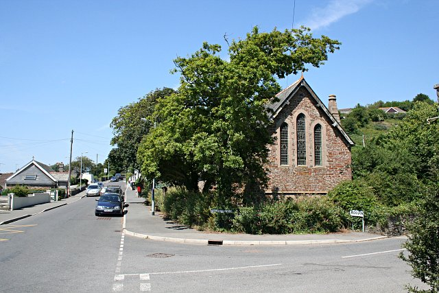 Downderry Church. The Church of St Nicolas Downderry began as a mission church to service the growing population of the village. The building dates from 1905. The bent-over shape of the tree in front of the church is interesting as it may indicate a response by the tree to being battered by strong southwesterly gales in the winter in this exposed coastal location.